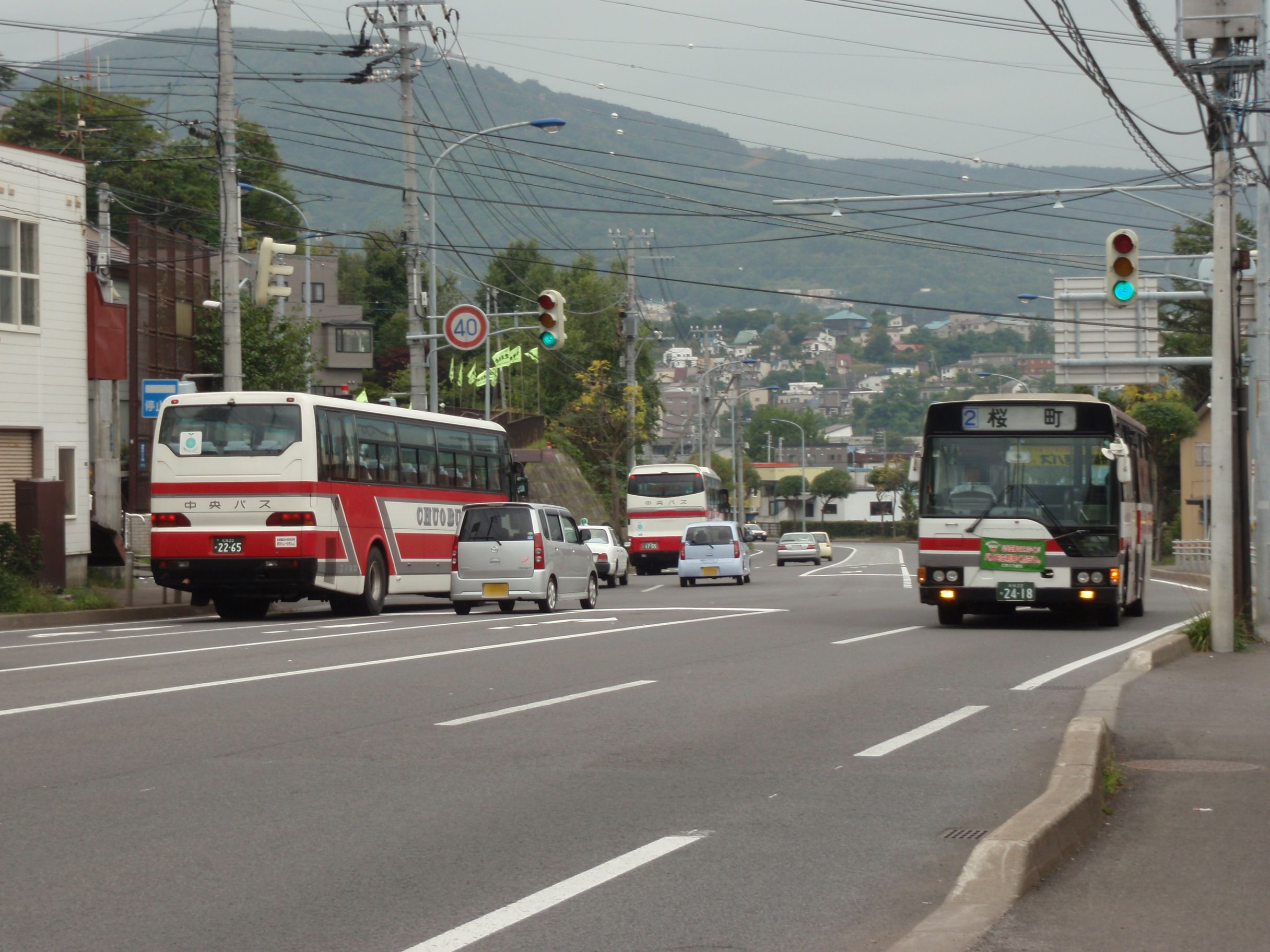 Hokkaido Chuo Bus at Shiomidai bus stop in Otaru city